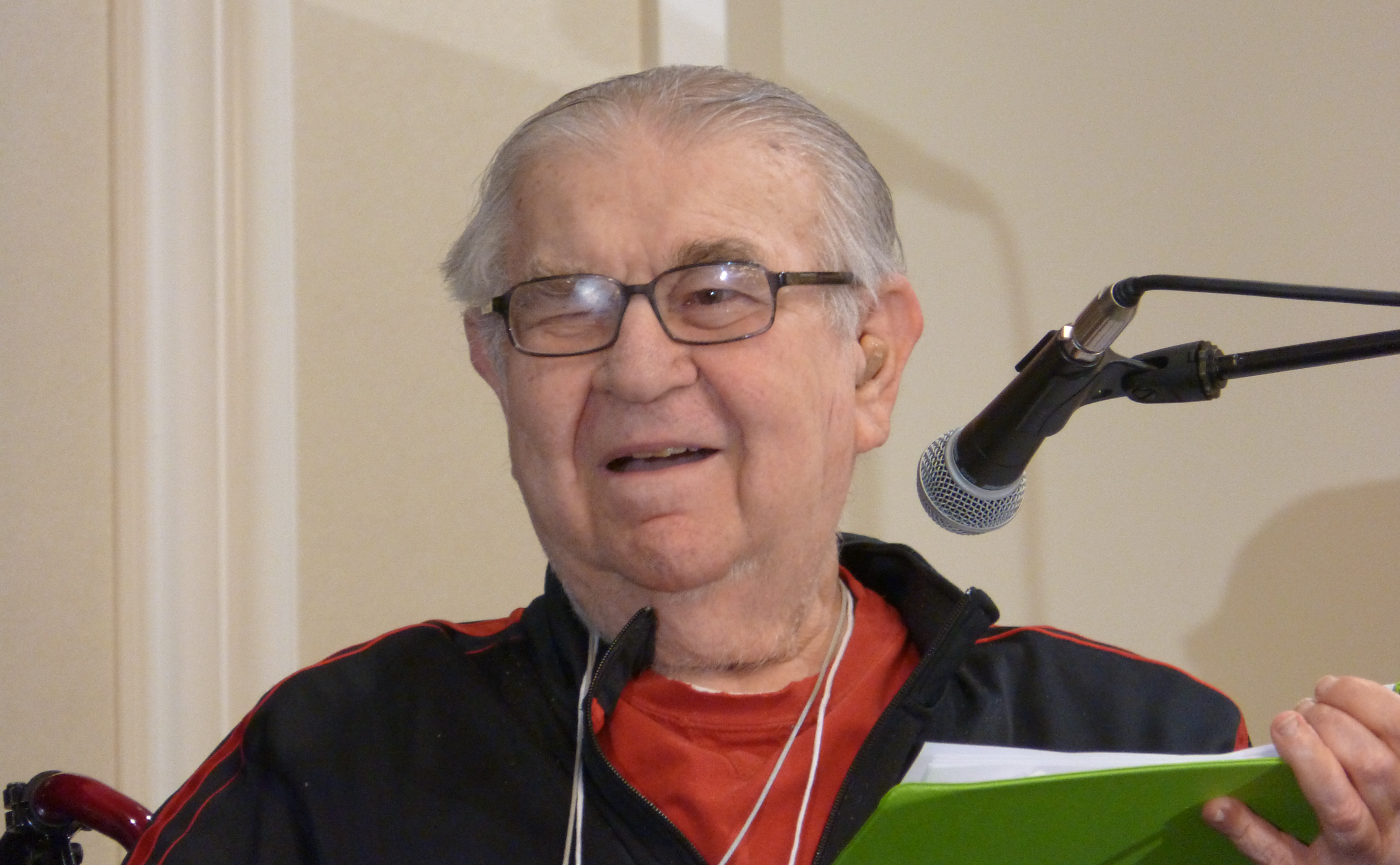 A photo of Marvin Kaplan